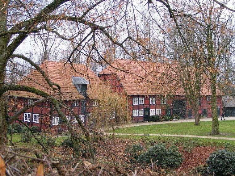 horse houses